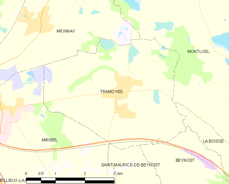 Map of French commune: Tramoyes Map commune FR insee code 01424.png